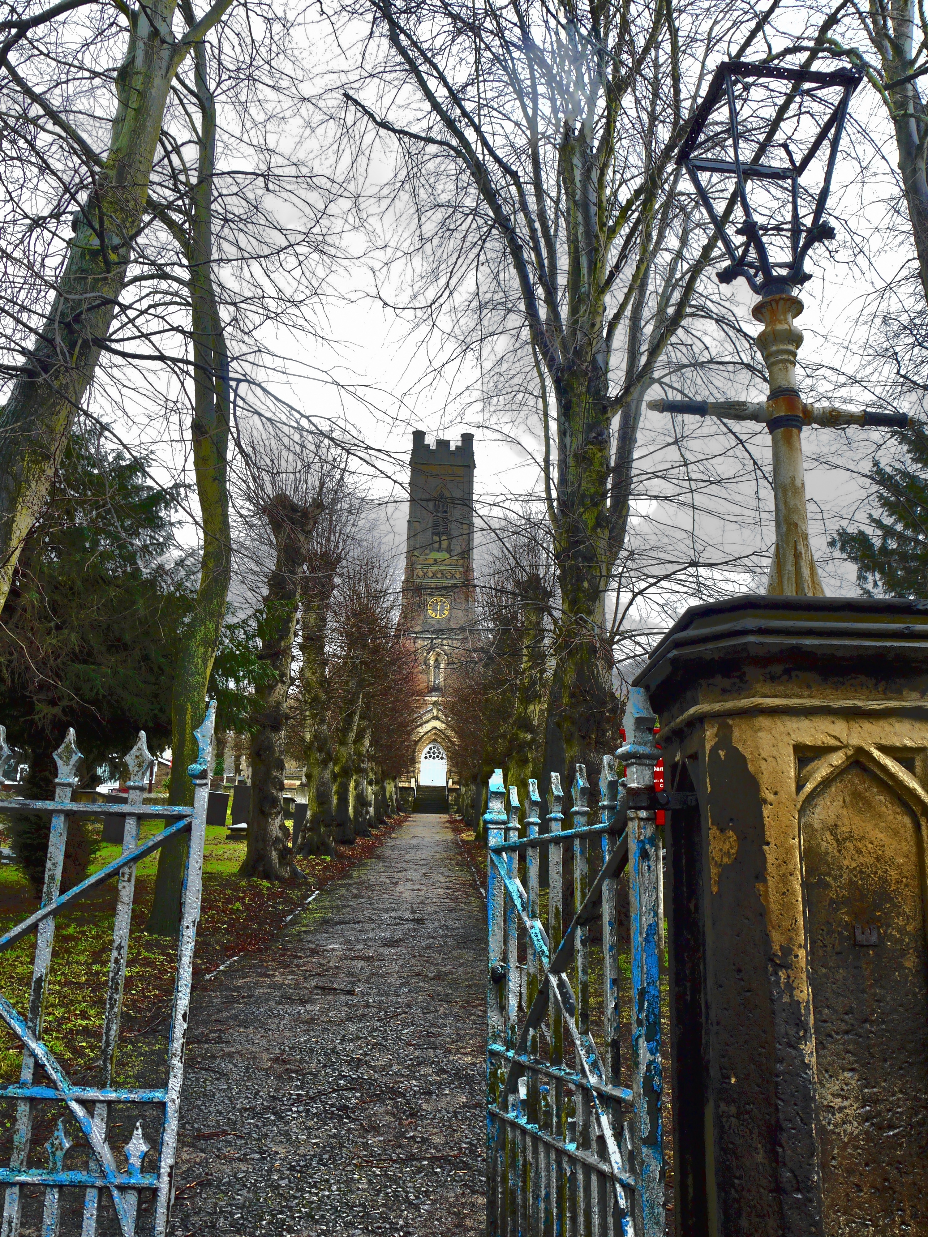 St Peter's parish church, Belper, Derbyshire, seen from the west